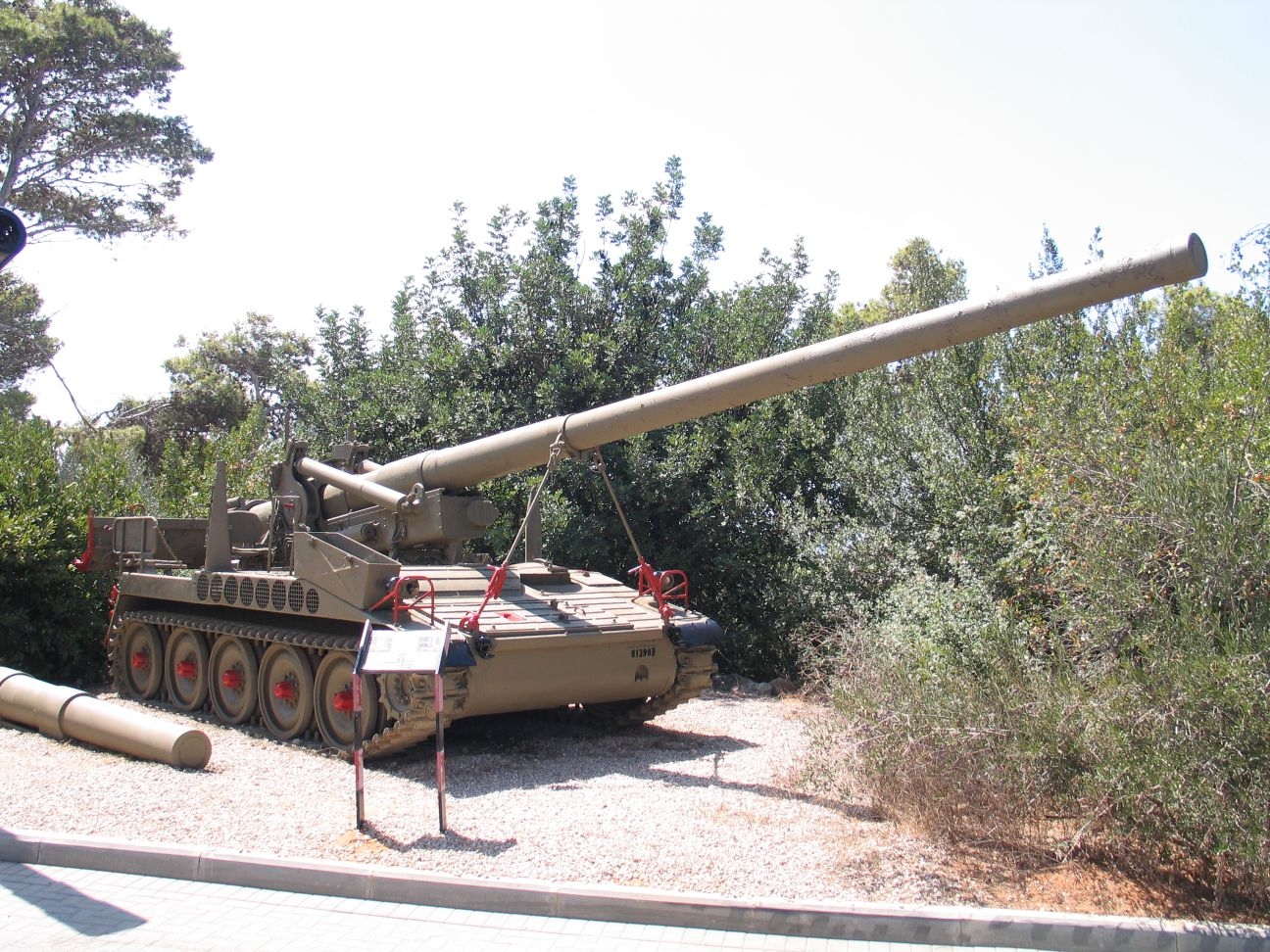 US M107 175 mm self-propelled gun (IDF designation "Romach") in Beyt ha-Totchan, Zichron Yaakov, Israel.